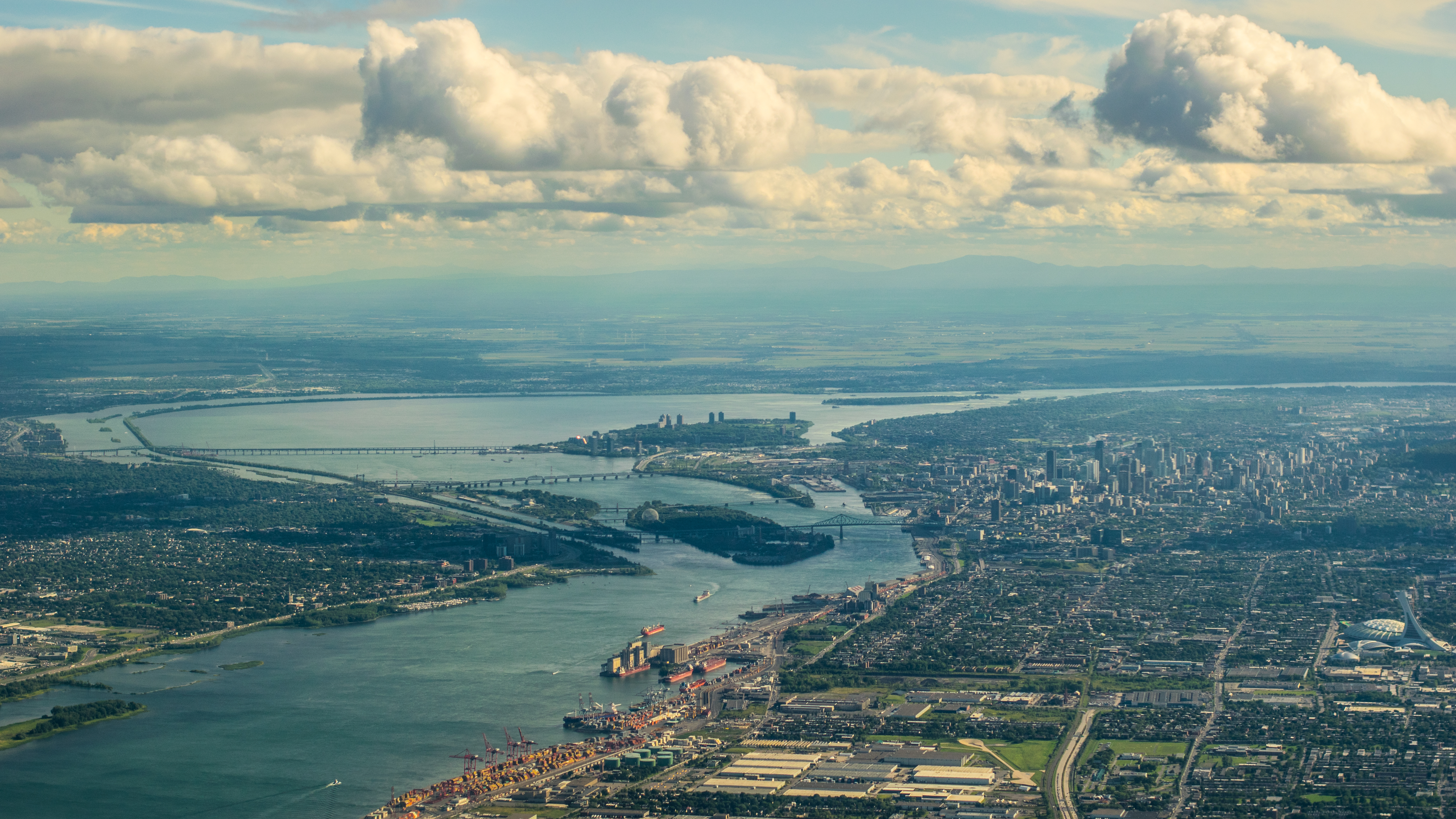 Aerial view of Montreal from a plane flying between Paris and Montreal.